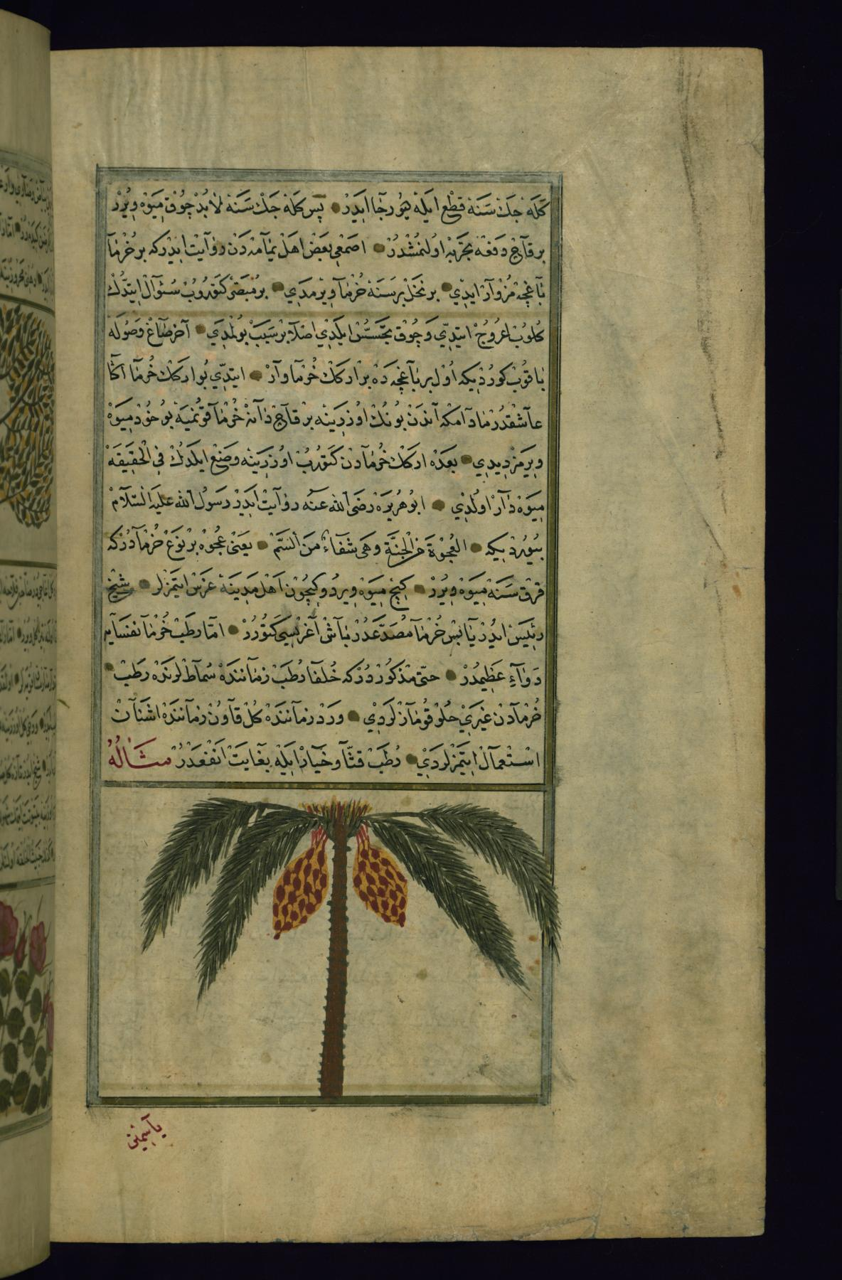 This folio from Walters manuscript W.659 depicts a palm tree.